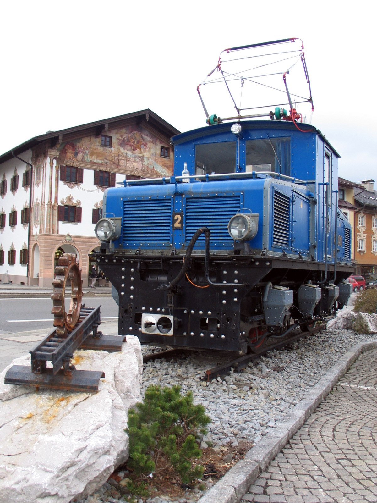 1930 AEG electric locomotive (factory number 4269, and signed No. 2 during use on the Bavarian Zugspitze Railway), portrayed as a monument on the town hall square in Garmisch (47°29'38.5"N 11°06'18.4"E).